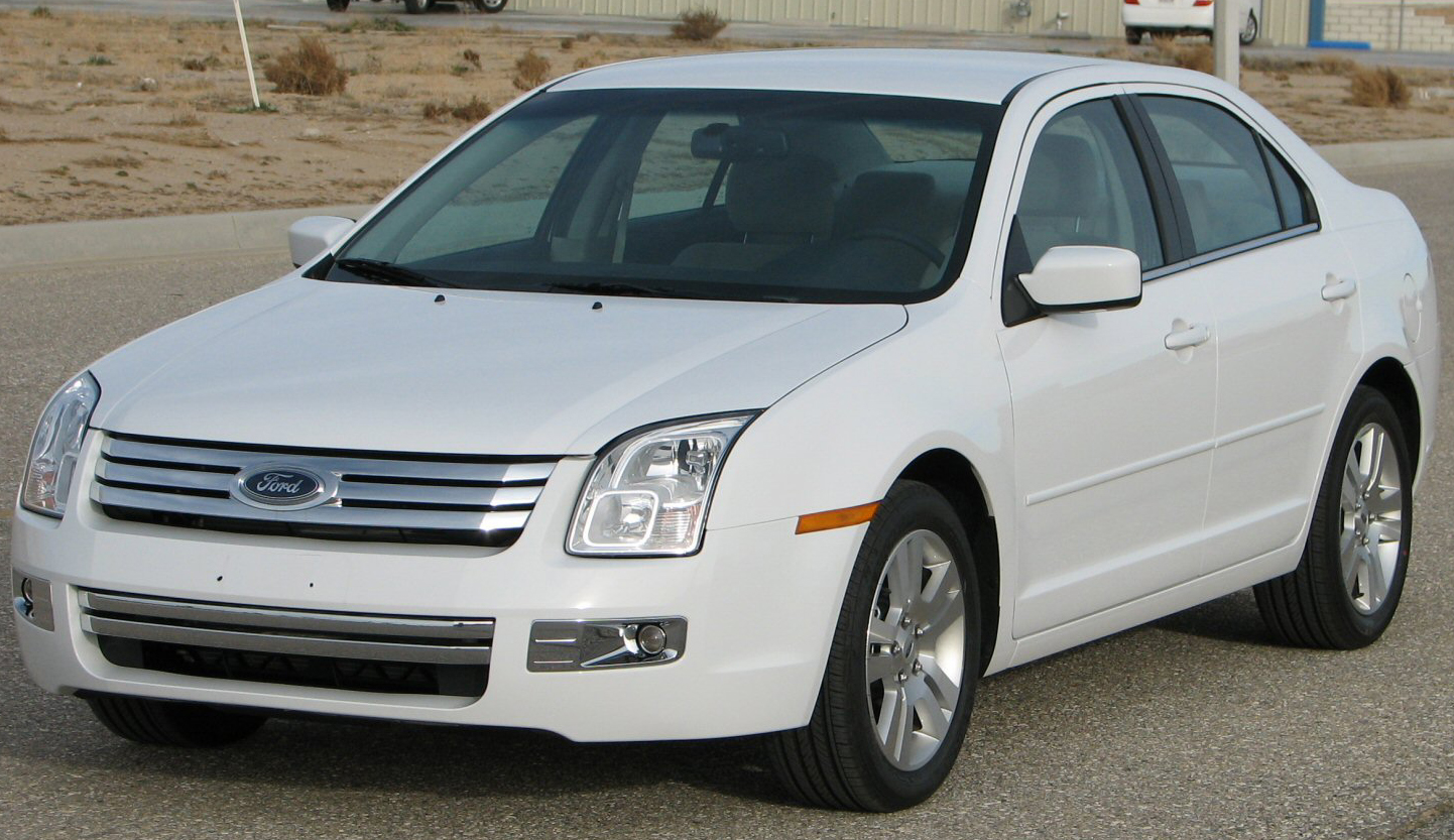 2006 Ford Fusion photographed in USA.